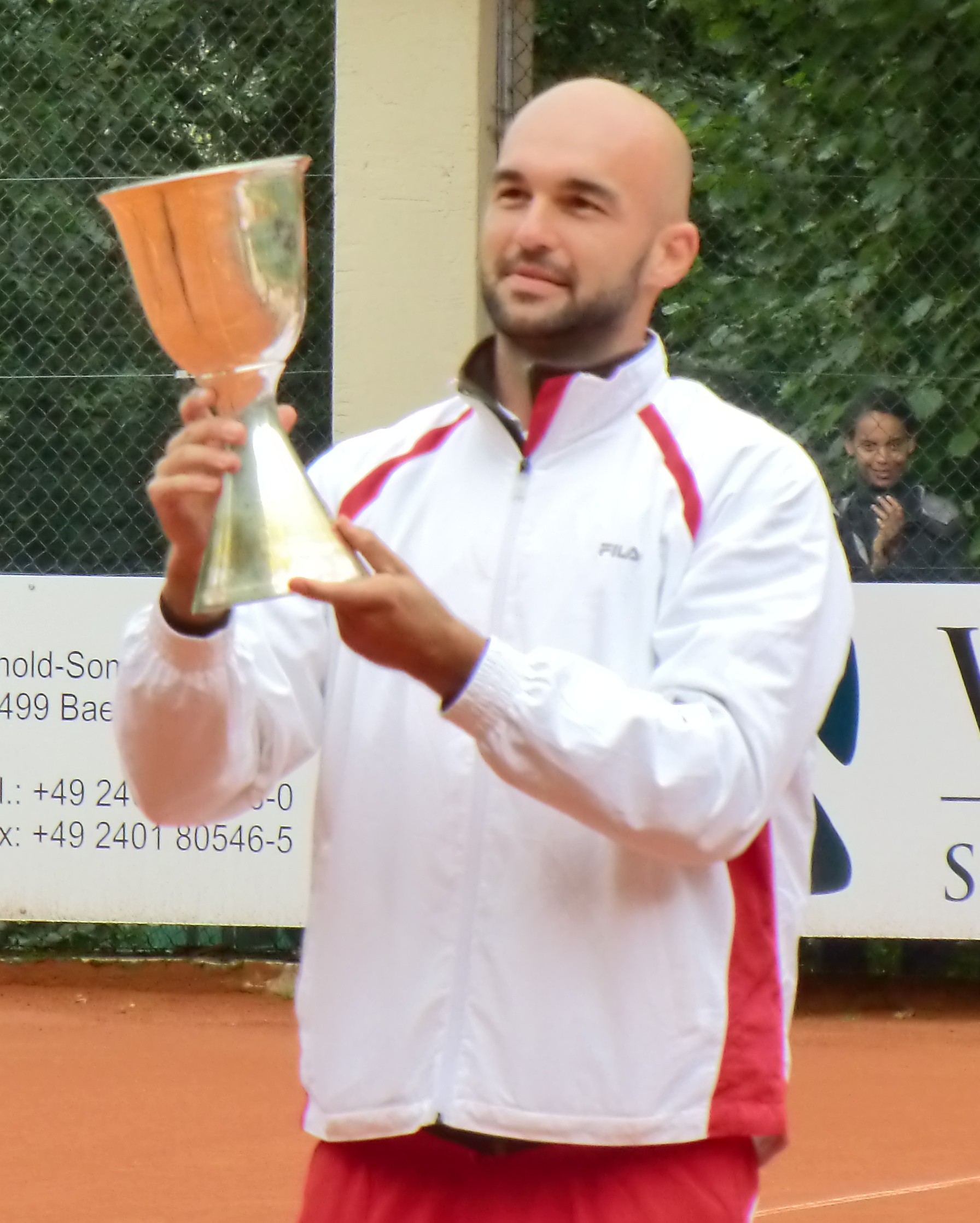 Dominik Meffert lifting the champion's trophy of the German Tennis-Bundesliga in Aachen